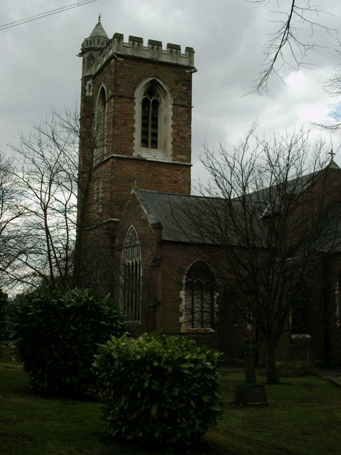 St Saviour's parish church, Saltley, West Midlands